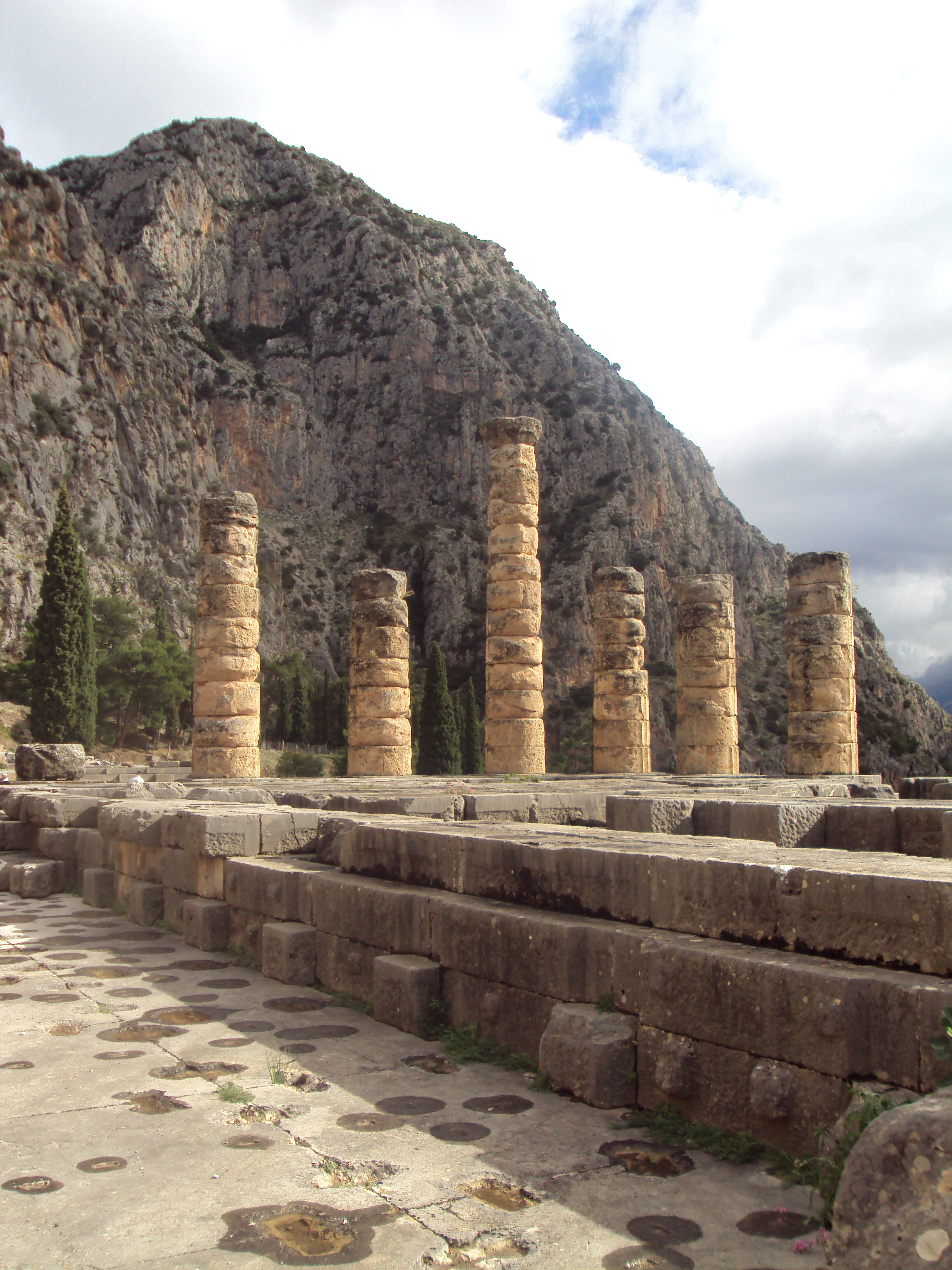 Delphi